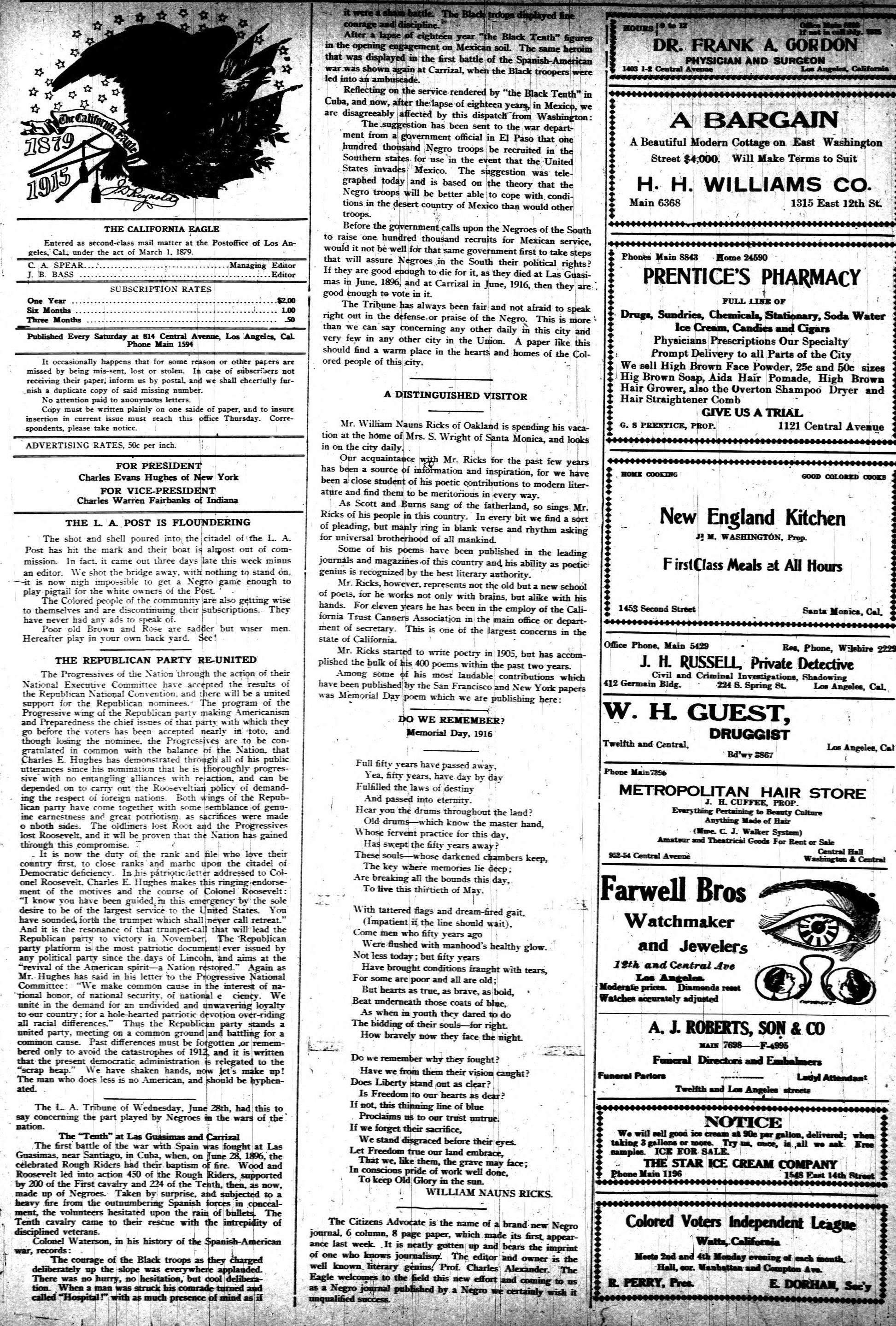 Page 4 of the California Eagle newspaper, issue of 1 July 1916, depicting a poem by William Nauns Ricks